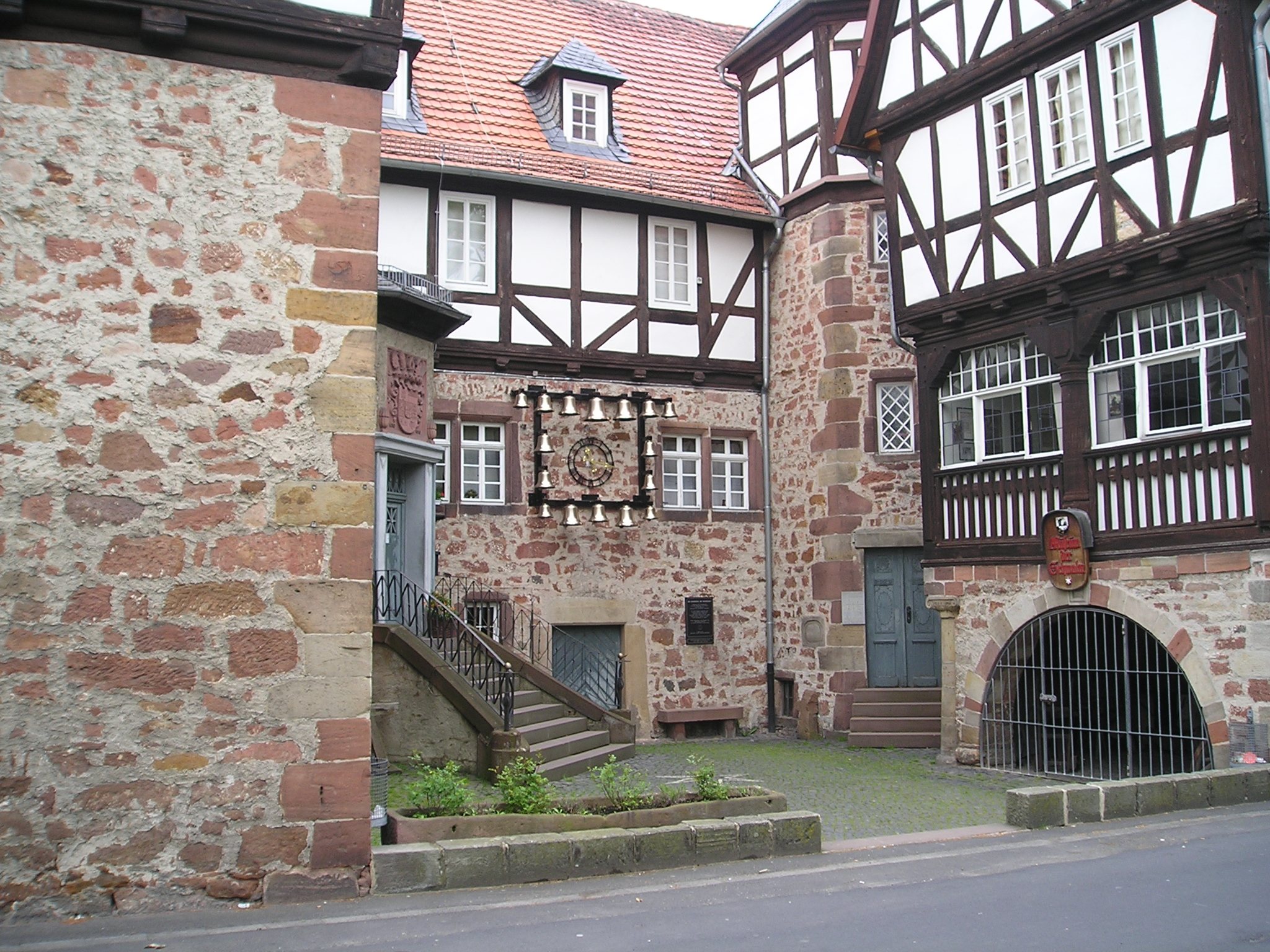 Museum der Schwalm, entrance